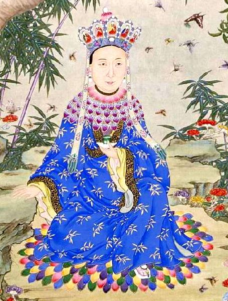 Imperial portrait of Empress Dowager Cixi of China